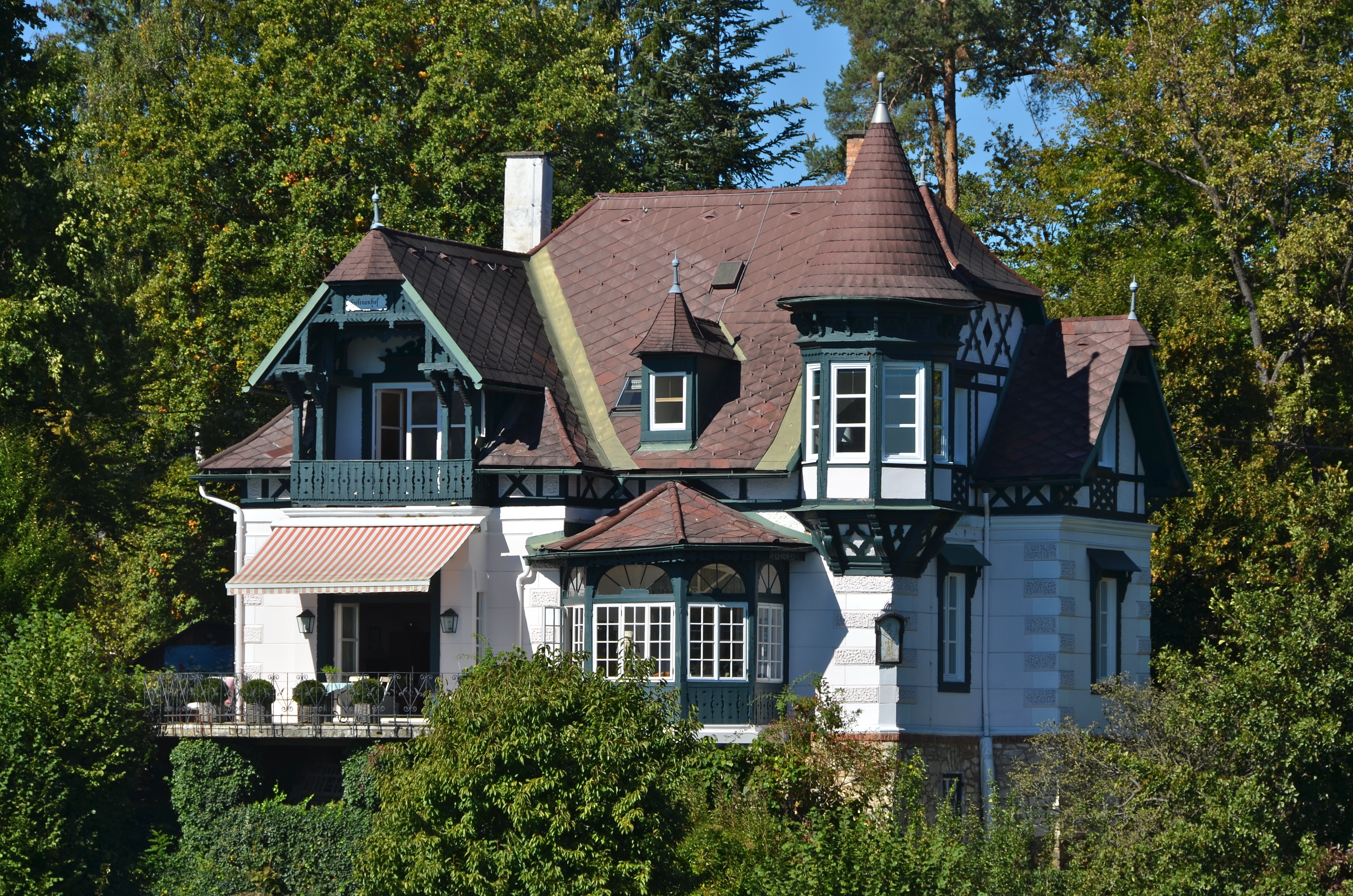 Villa Schwalbennest (“Wörthersee Architecture”), designed by Friedrich Sigmundt in 1888/89, Berthastrasse #59, municipality Krumpendorf, district Klagenfurt Land, Carinthia, Austria, EU